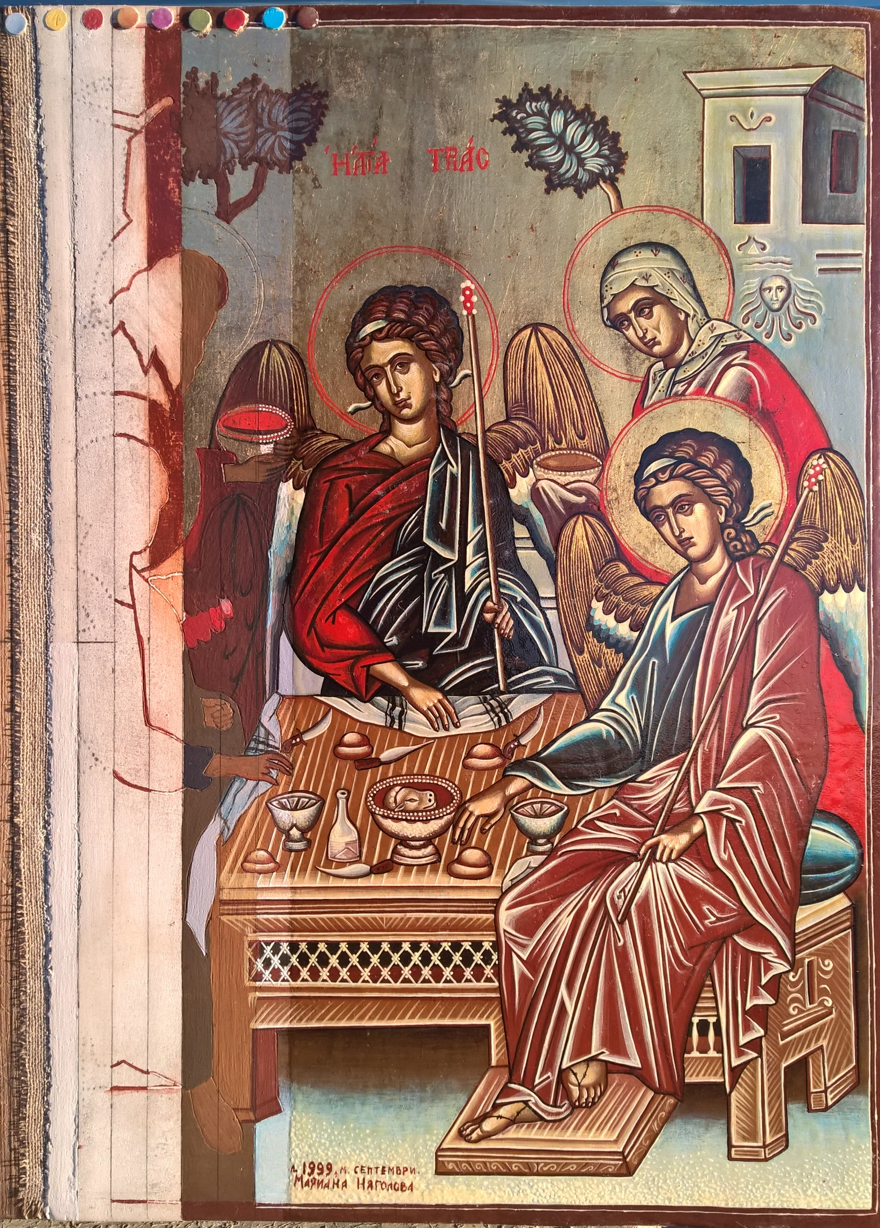 The iconography of the ikon in the successive stages of its establishment